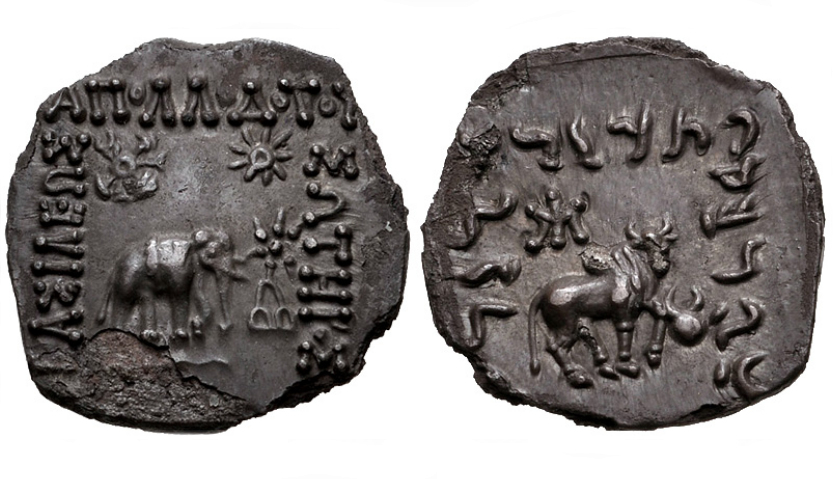 Apollodotus I early coinage symbols